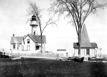 1890 Lighthouse at Throg's Neck in New York